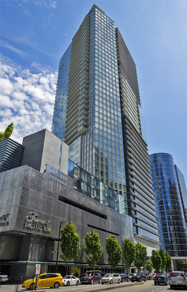 Fairmont Pacific Rim hotel and residential tower in Vancouver.